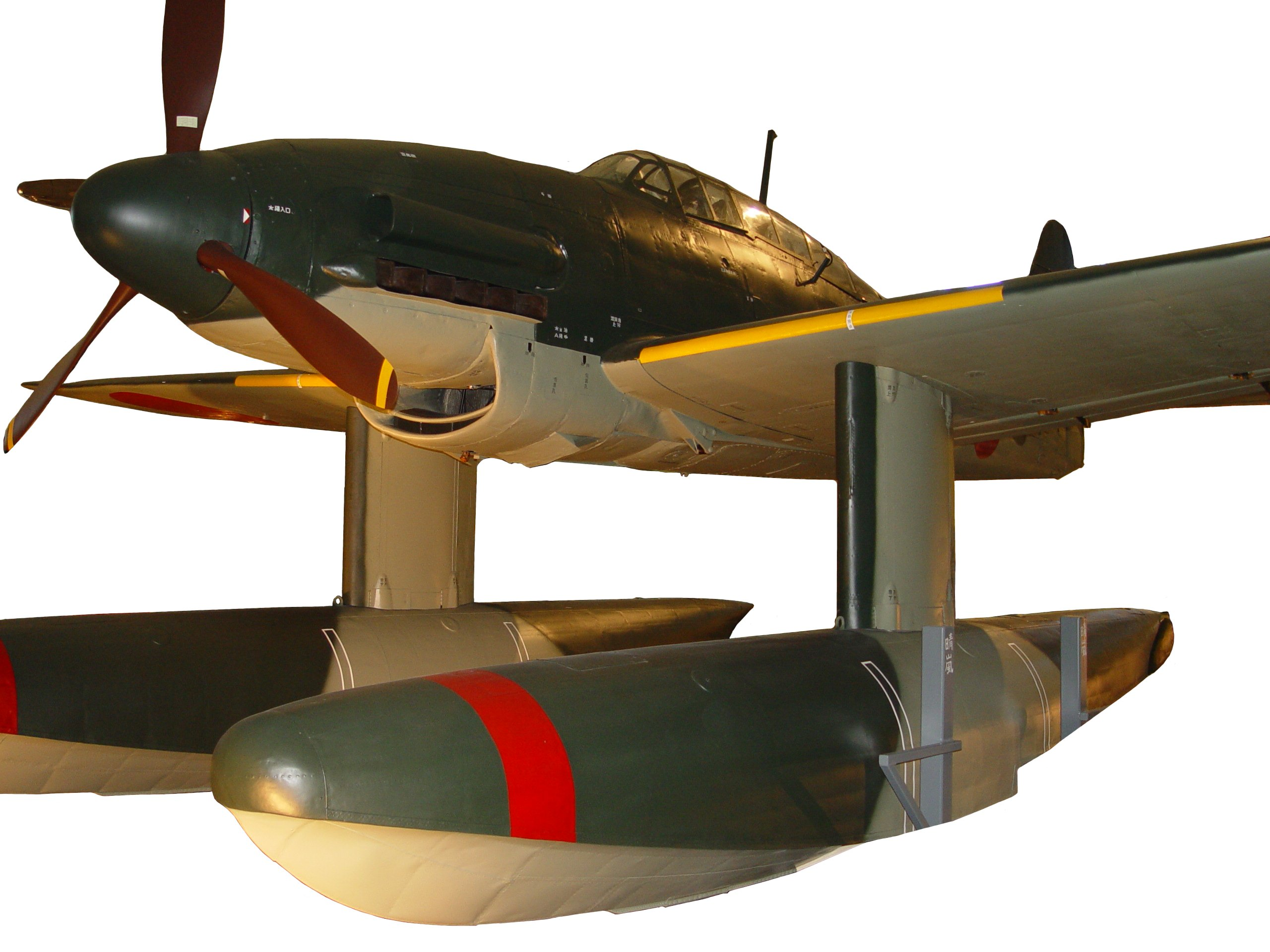 Aichi M6A Seiran